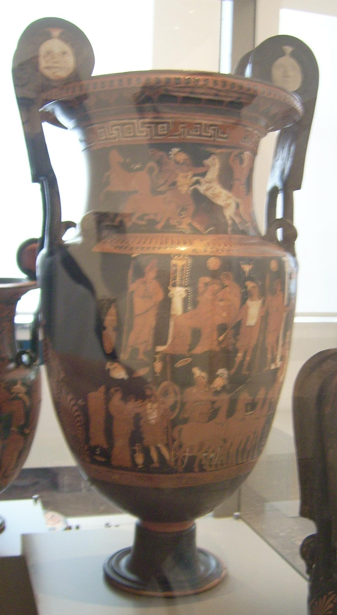 Avers of the Priamides Krater (Hector, Kassandra, Oinomaos), attributed to the Unerworld Painter, apulian, ca. 340 B.C., Anikensammlung Berlin, Inventar-number 1984.45, 107 cm high